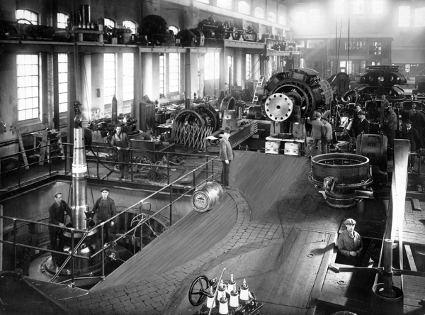 From assembly hall at AS Norwegian Electric & Brown Boveri (NEBB) at Skøyen, Oslo, Norway in the 1930s.